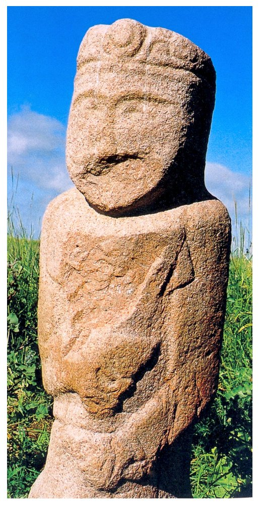 Niri QaghanThe memorial complex is located on territory of modern Xinjiang Uighur autonomy in China, Kazak Autonomy Region, «Small Qonqai» land in 5 km from «Mongolkure». N- 43 07' 19", E- 81 11' 48".